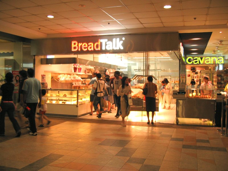 A BreadTalk outlet in Causeway Point, a shopping mall in Woodlands, Singapore.